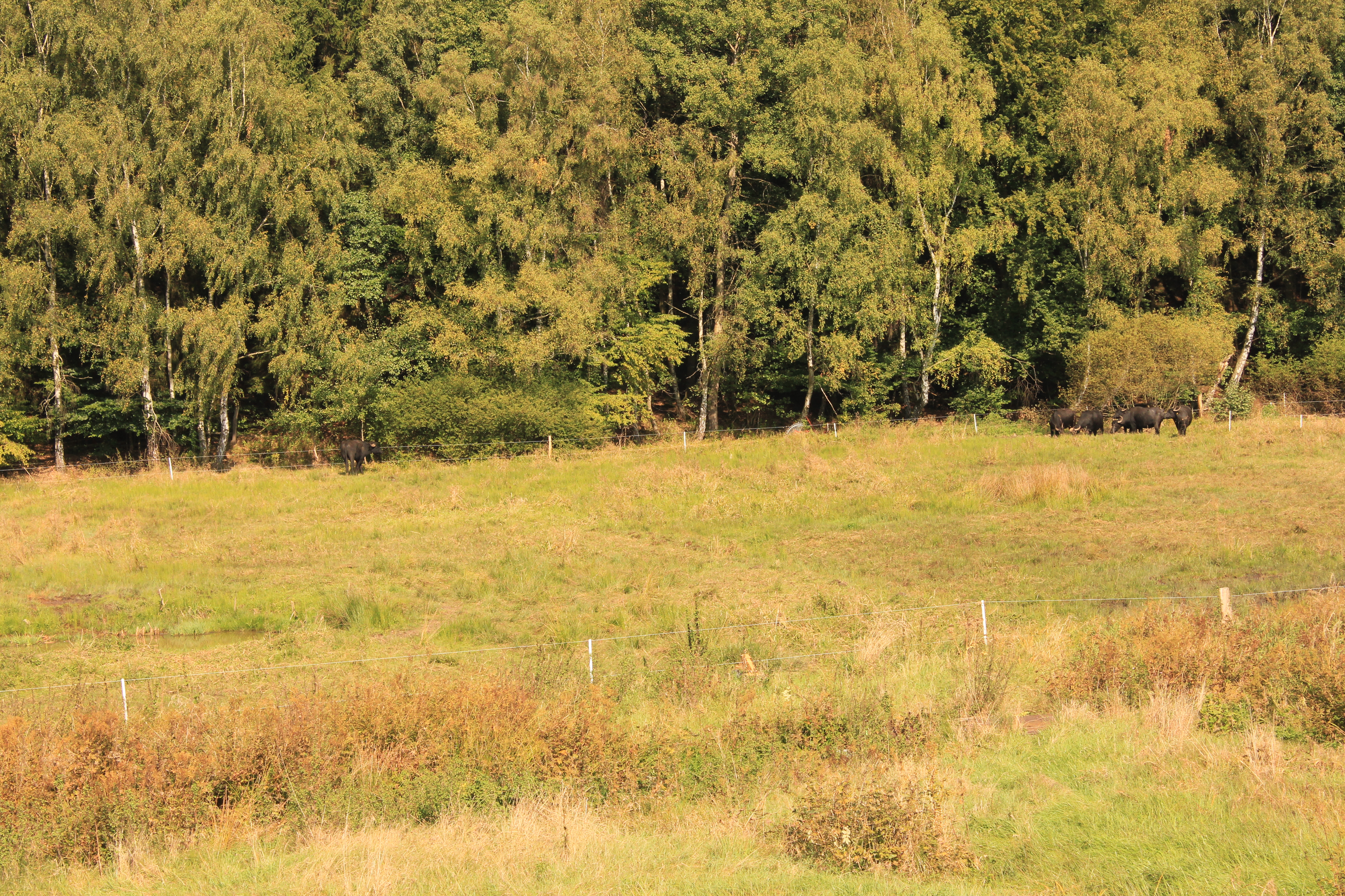 Water buffaloes graze on a wet meadow in the Henzeried in the valley of the Wetschaft near Roda. In the foreground you can see the Wetschaft flowing.